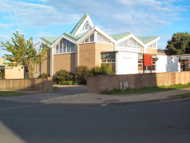 Holme Church, Holme Wood. Exuding an air of alienation and neglect, as befits a church in such a godless place...